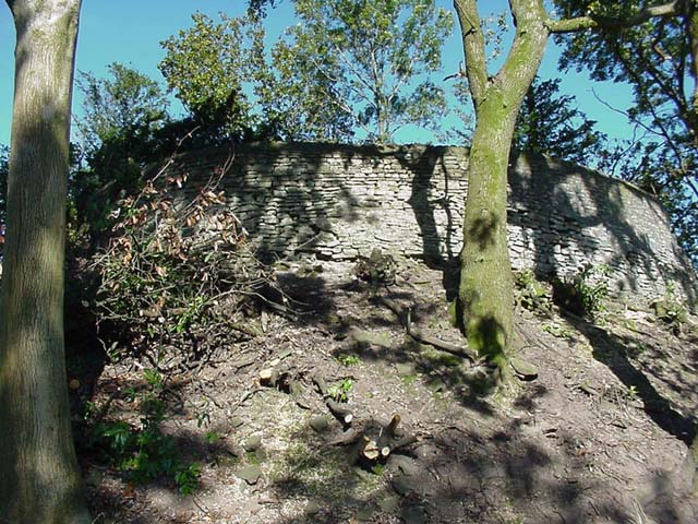 Hill Fort on Craig Ruperra.